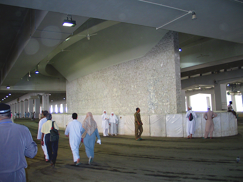 Jamaraat